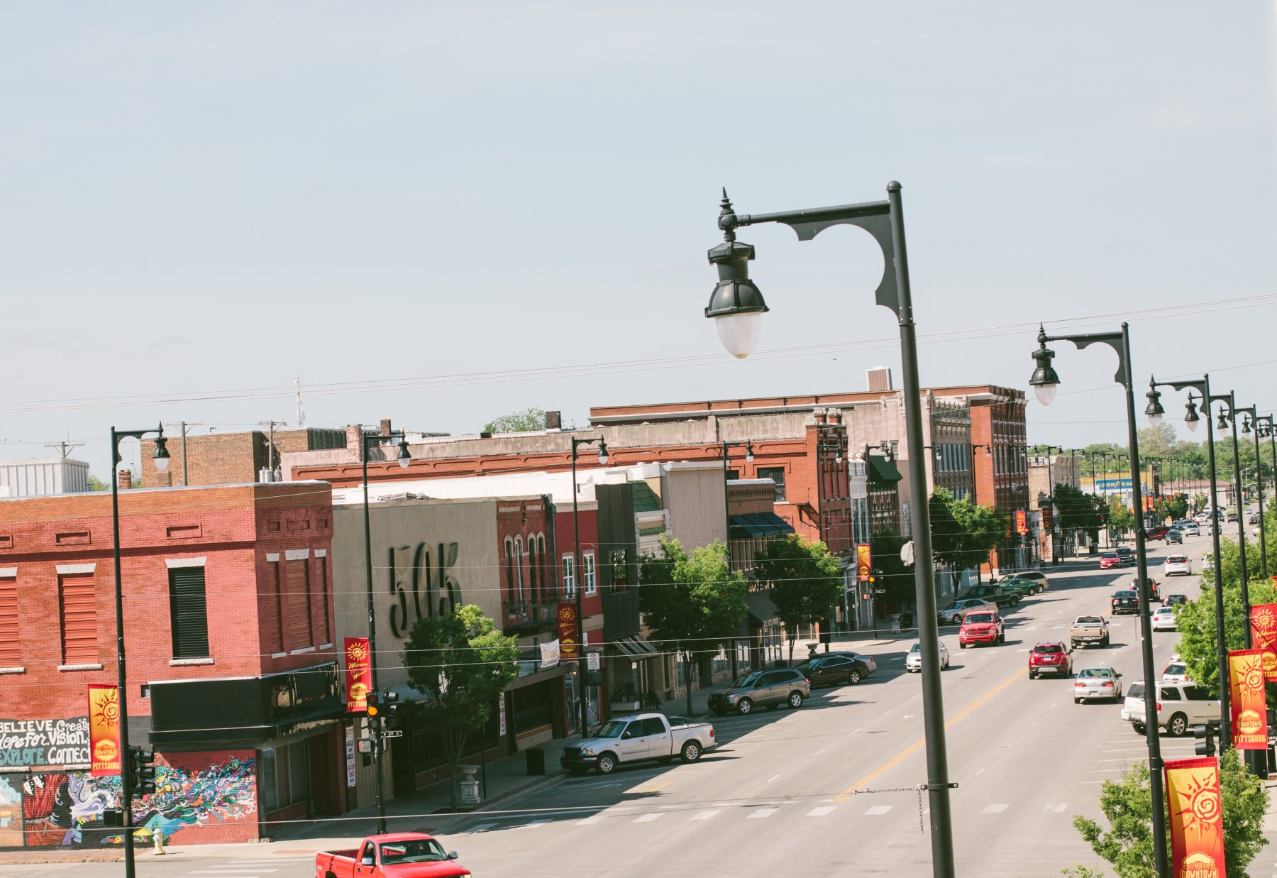 Aerial view of Downtown Pittsburg, Kansas. Photo taken 2017.